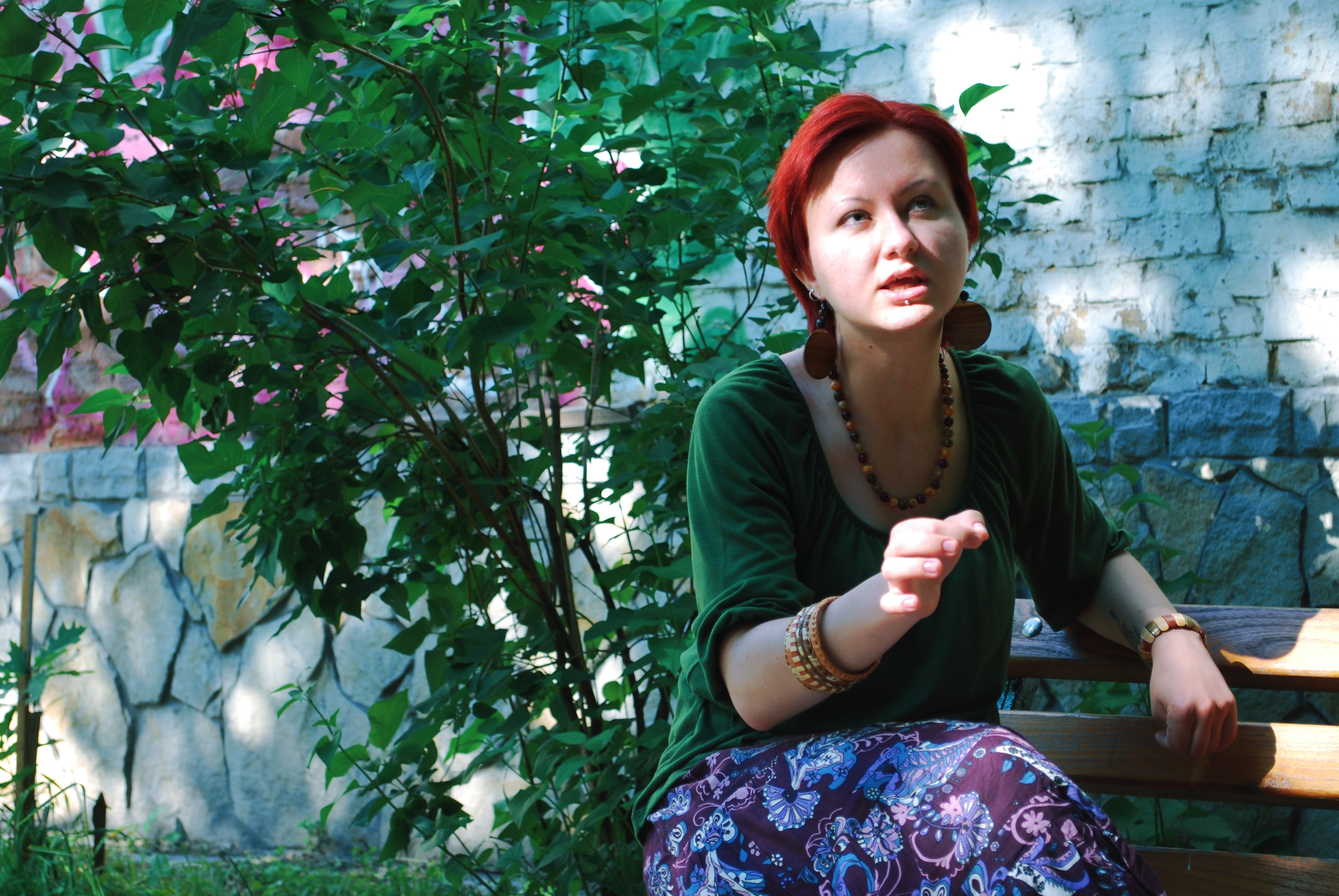 Iryna Shuvalova, portrait